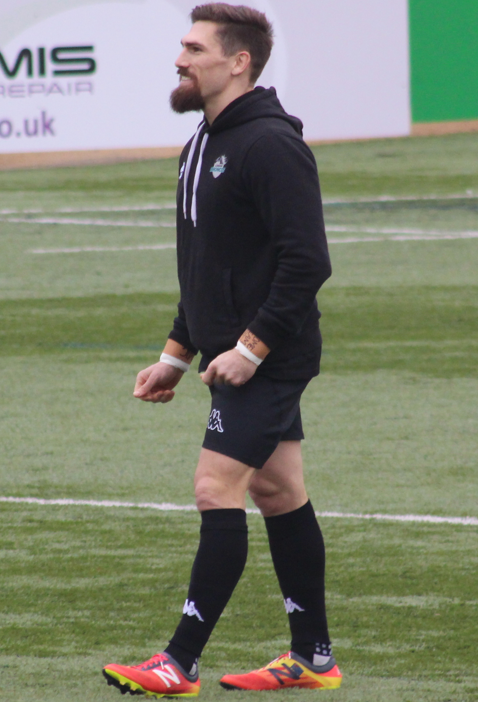 Jarrod Sammut